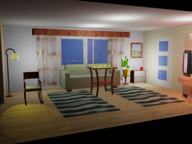 Livingroom image made whit AutoCAD.